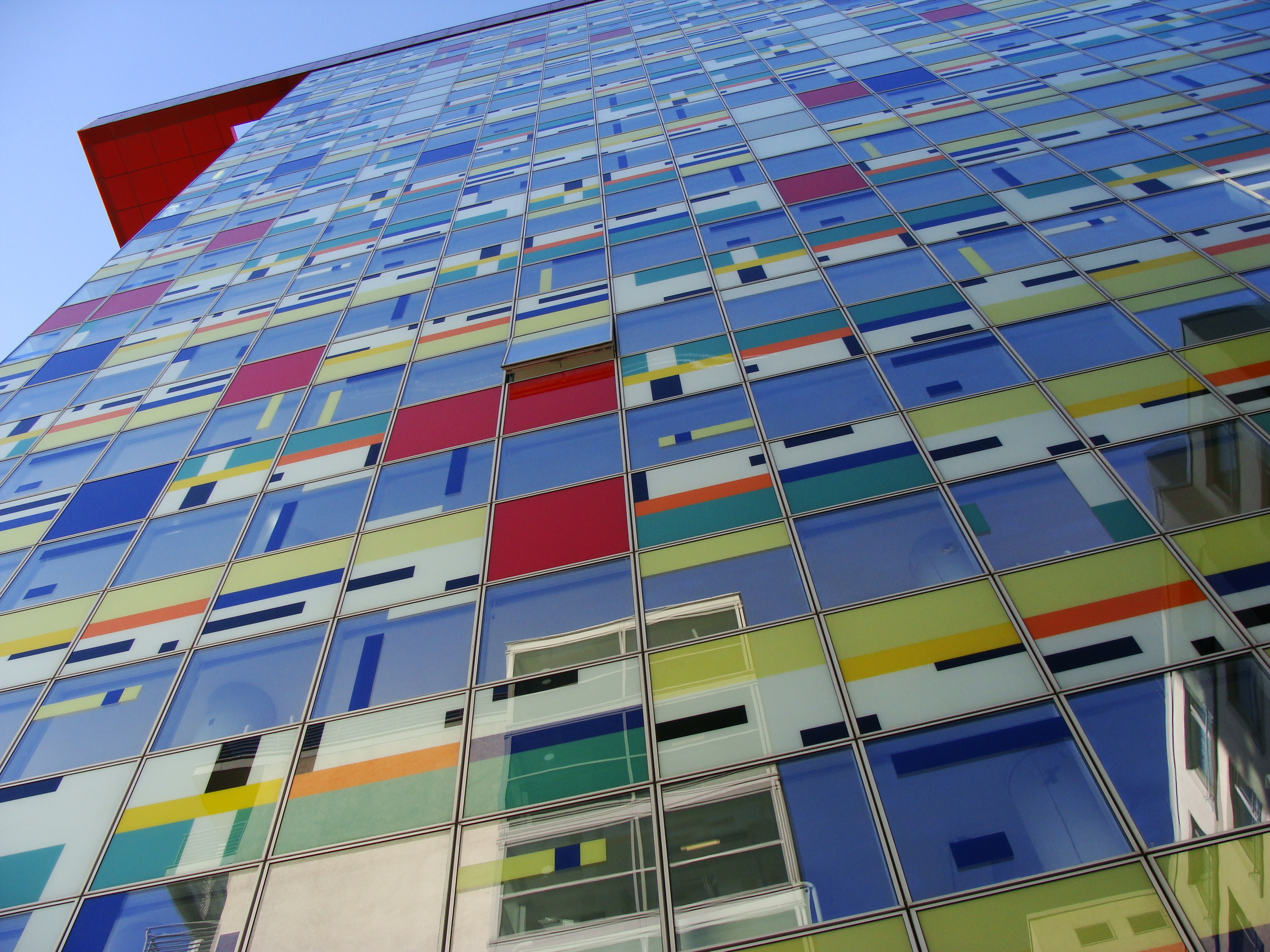 The Colorium, an 18 storey tower designed by Alsop and Partners, in the media harbour, Dusseldorf.